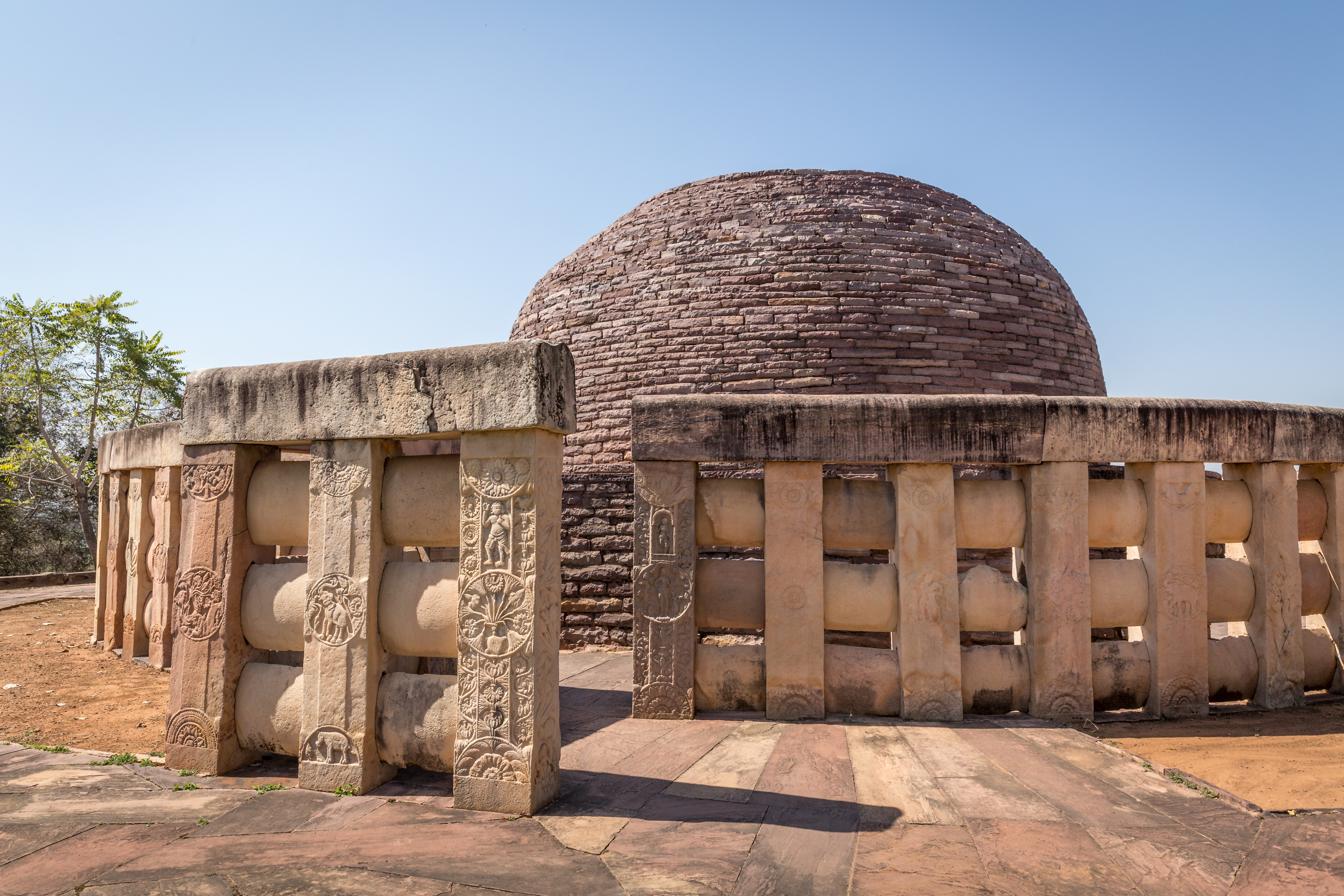 Sanchi Stupa number 2